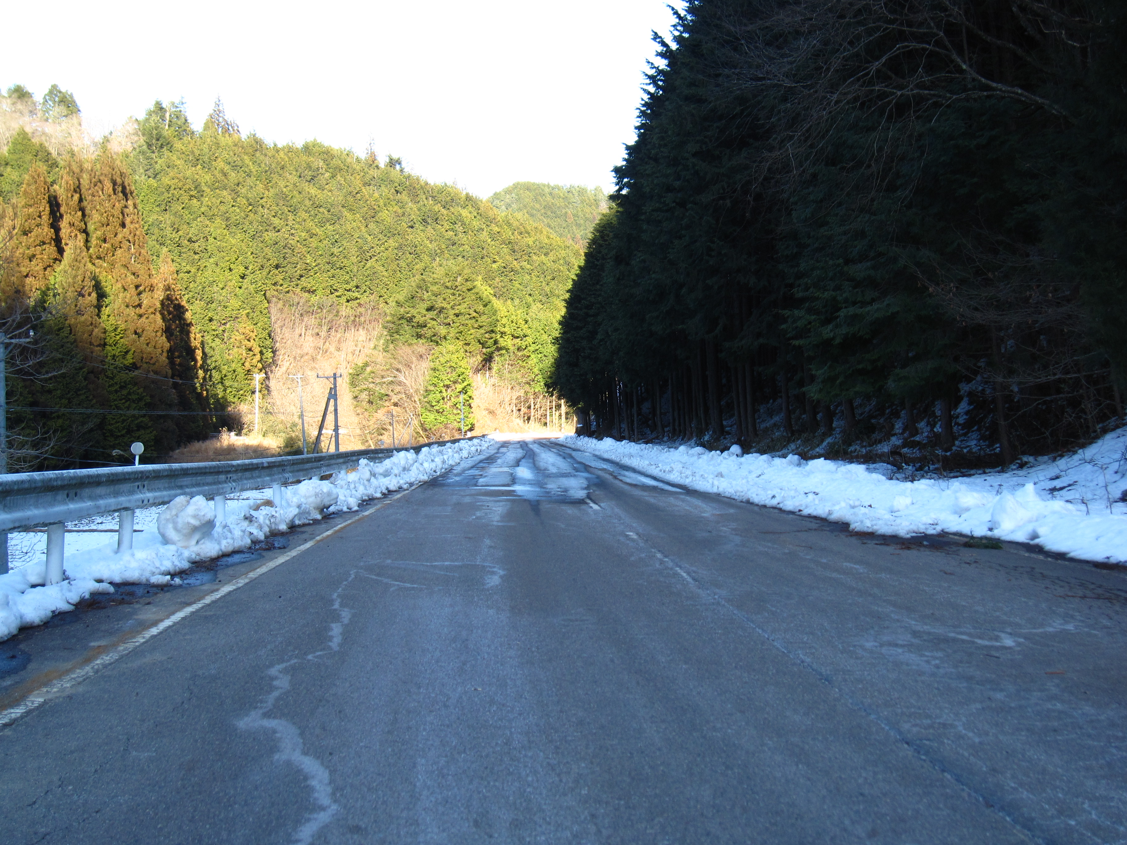 The Gifu Prefectural Road Route 85 in Kanayamacho Tobe, Gero City